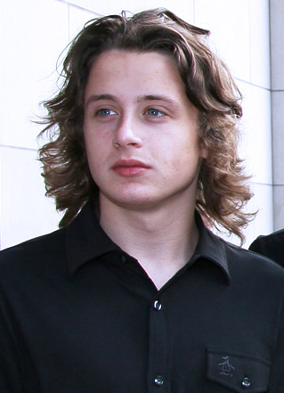 Rory Culkin at the 2008 Toronto International Film Festival